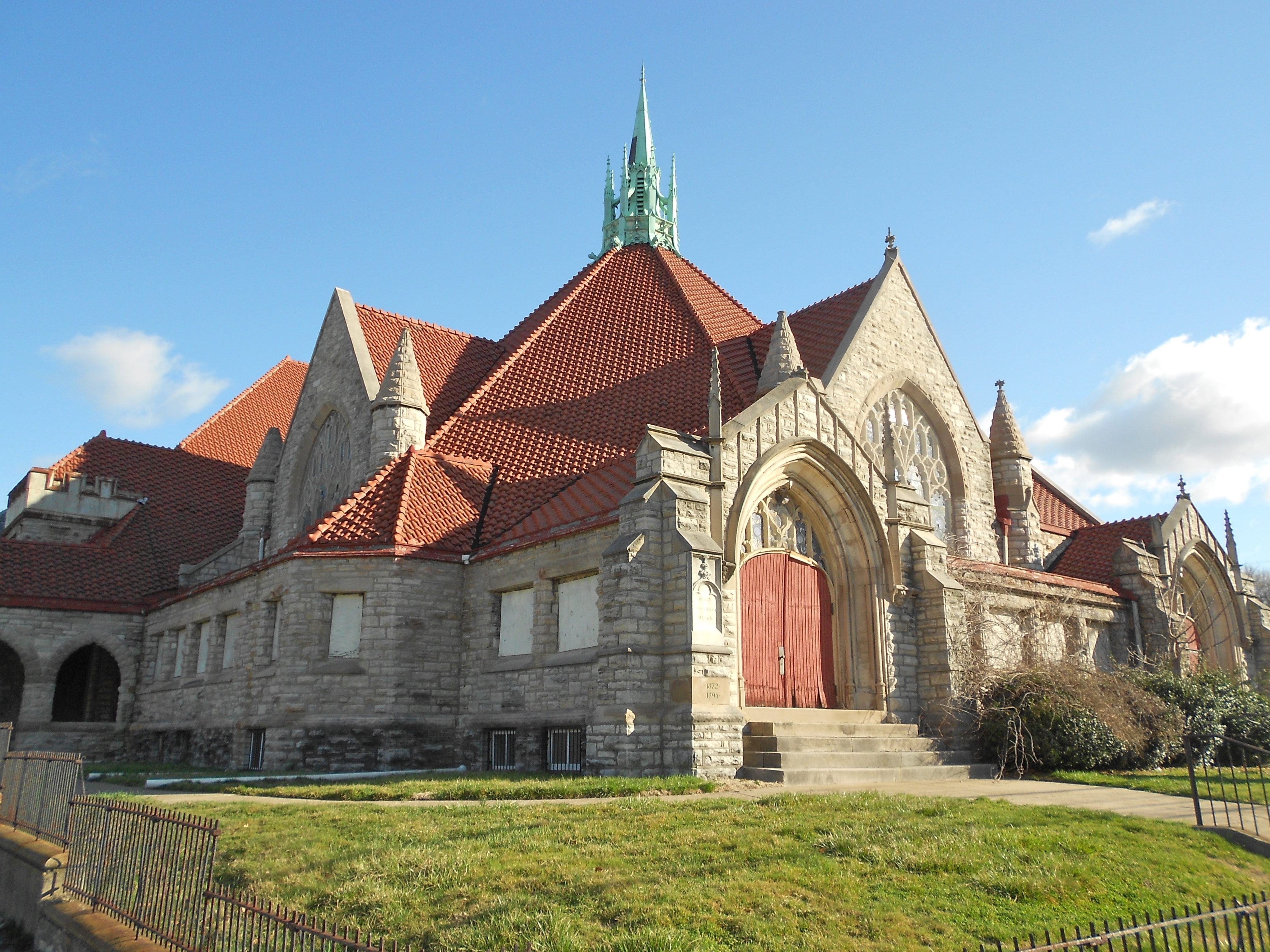 Former 3rd Presbyterian Church in Chester, Pennsylvania (now Eastside Ministries - still Presbyterian)